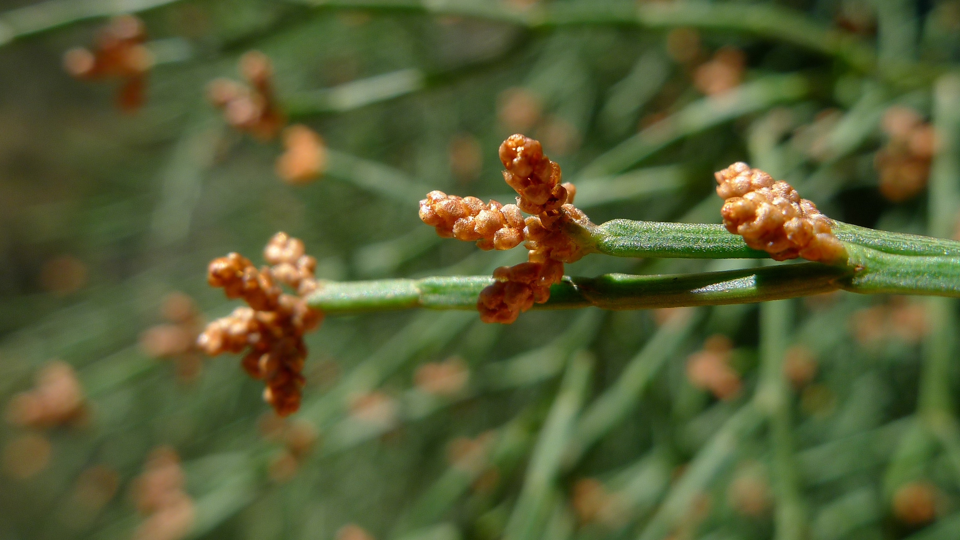 Male pollen cones of Muellers Cypress Callitris muelleri. Royal National Park, NSW Australia, September 2012.